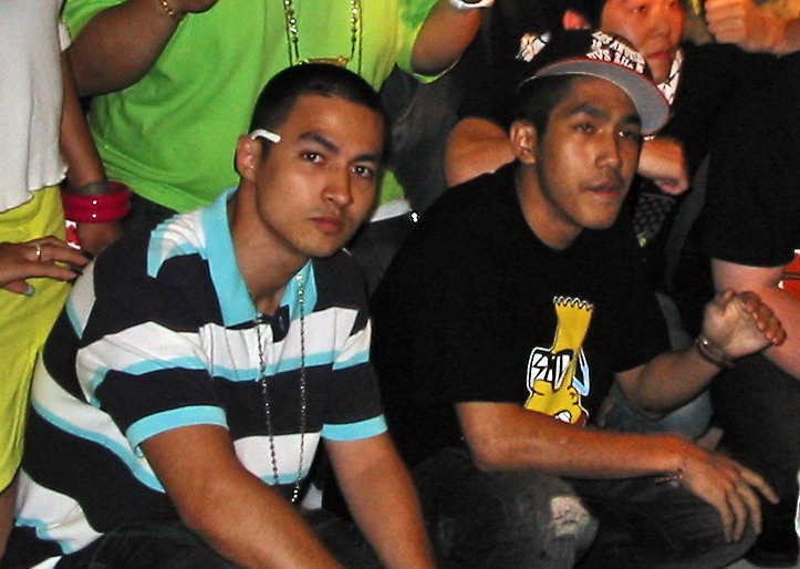 Southside (Thai band) at It's my MTV party